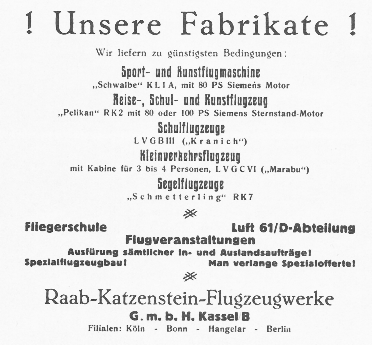 Advertisement of the Raab-Katzenstein-Flugzeugwerke